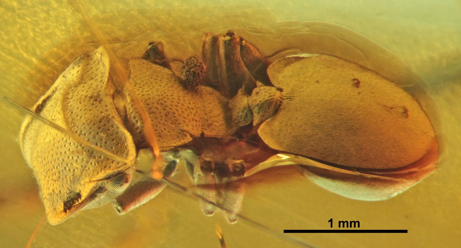 Dorsal view of the Cephalotes integerrimus holotype worker. Dominican amber, Burdigalian; Dominican Republic, Hispaniola Staatliches Museum fur Naturkunde, specimen SMNSDO3326